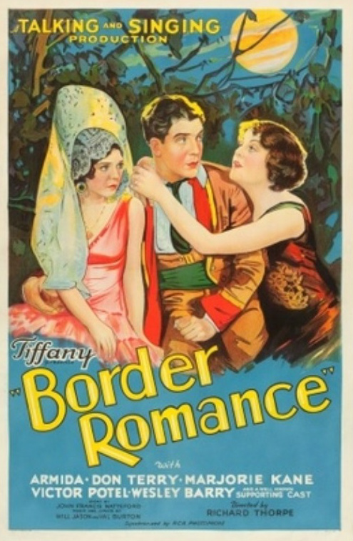 Poster for the American romantic western film Border Romance (1929).